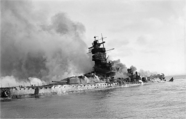 The German battleship ADMIRAL GRAF SPEE in flames after being scuttled in the River Plate estuary off Montevideo, Uruguay.